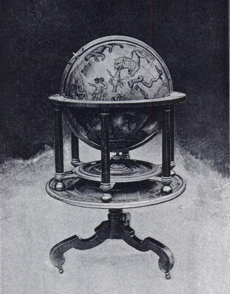 A celestial globe made by Emery Molyneux in 1592. Such globes were the first to be made in England and the first to be made by an Englishman. The globe, and a terrestrial globe also manufactured by Molyneux, belong to Middle Temple and are displayed in its library. The caption of the image is: "The Molyneux Celestial Globe. One of a pair at Middle Temple Library. (After a photograph.)"